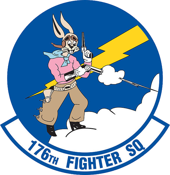 Emblem of the 176th Fighter Squadron